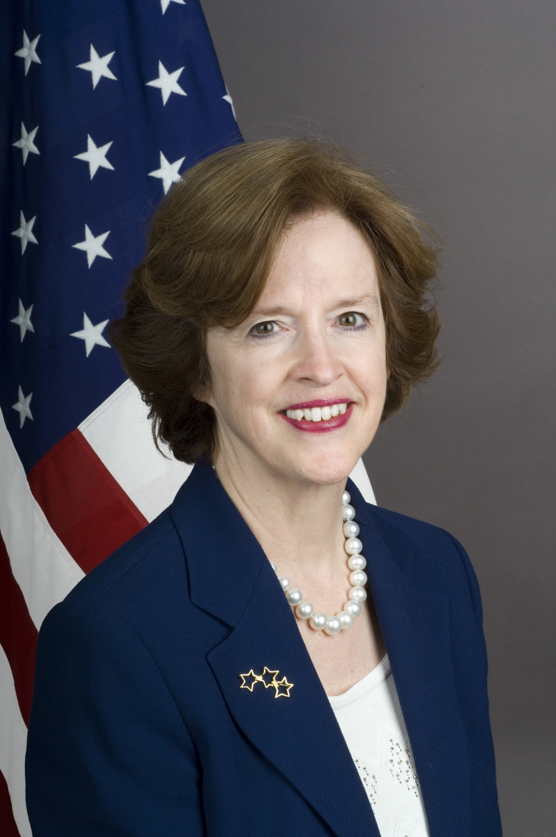 April H. Foley. As of 2008, the United States Ambassador to Hungary.